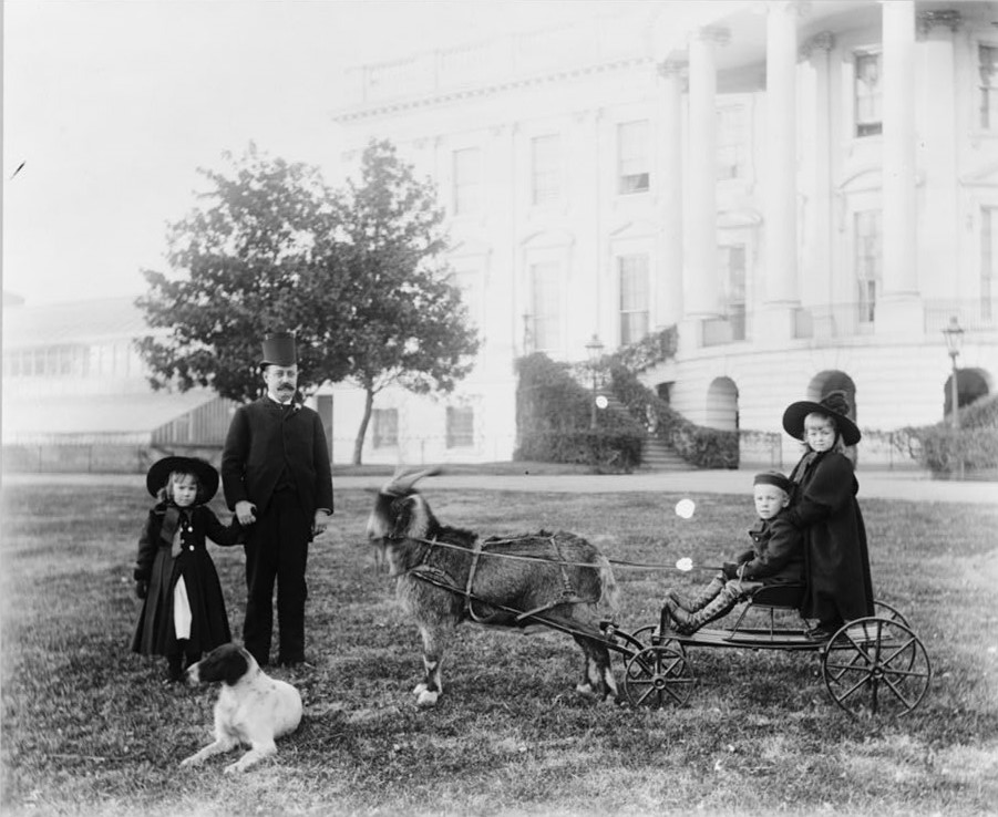 Title White House--Major Russell Harrison and Harrison children--Baby McKee and sister on goat cart Contributor Names Johnston, Frances Benjamin, 1864-1952, photographer Created / Published [between 1889 and 1893] Subject Headings - Harrison, Russell B.--(Russell Benjamin),--1854-1936--Family - White House (Washington, D.C.)--1880-1900 - Fathers & children--Washington (D.C.)--1880-1900 - Goat carts--Washington (D.C.)--1880-1900 Format Headings Group portraits--1880-1900. Photographic prints--1880-1900. Portrait photographs--1880-1900. Notes - Frances Benjamin Johnston Collection (Library of Congress). - No. 587. - Published in: Presidential Pets / Niall Kelly (1992), p. 45. - Original negative: LC-J698-81266. Medium 1 photographic print. Call Number/Physical Location LOT 11350-1 [P&P]